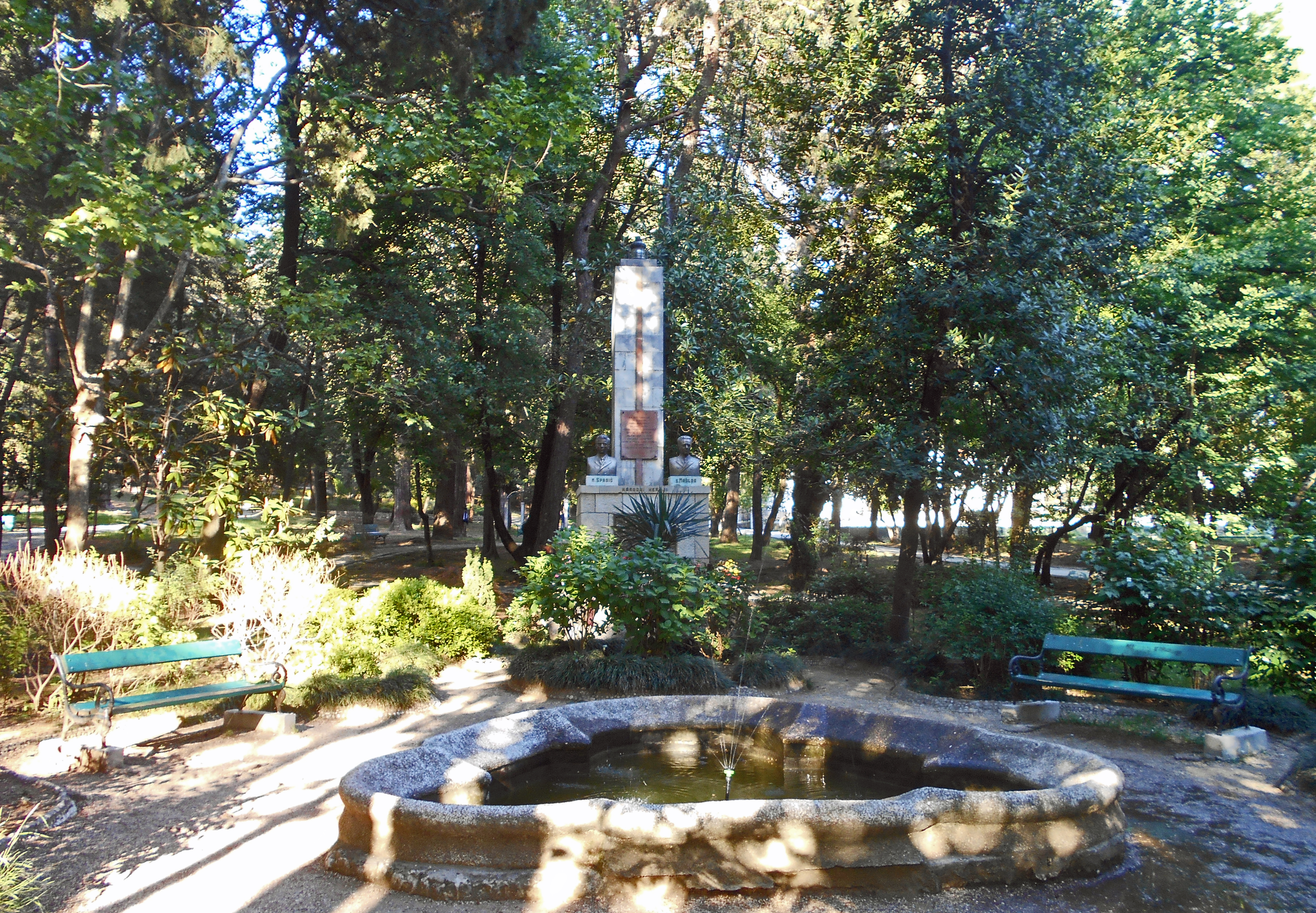 City park in Tivat, a monument to Milan Spasic and Sergej Masera, national heroes of World War II